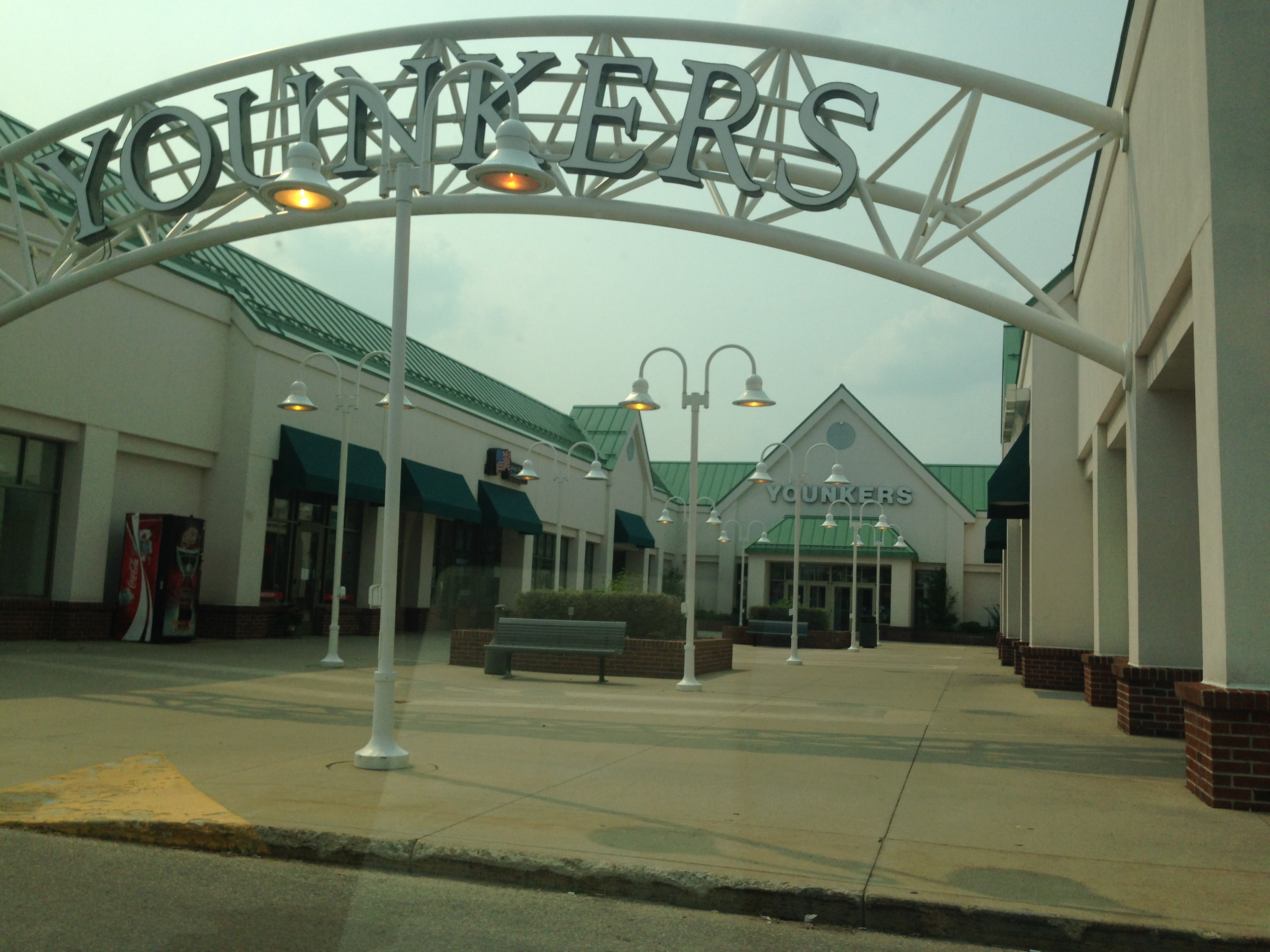 Cherryland